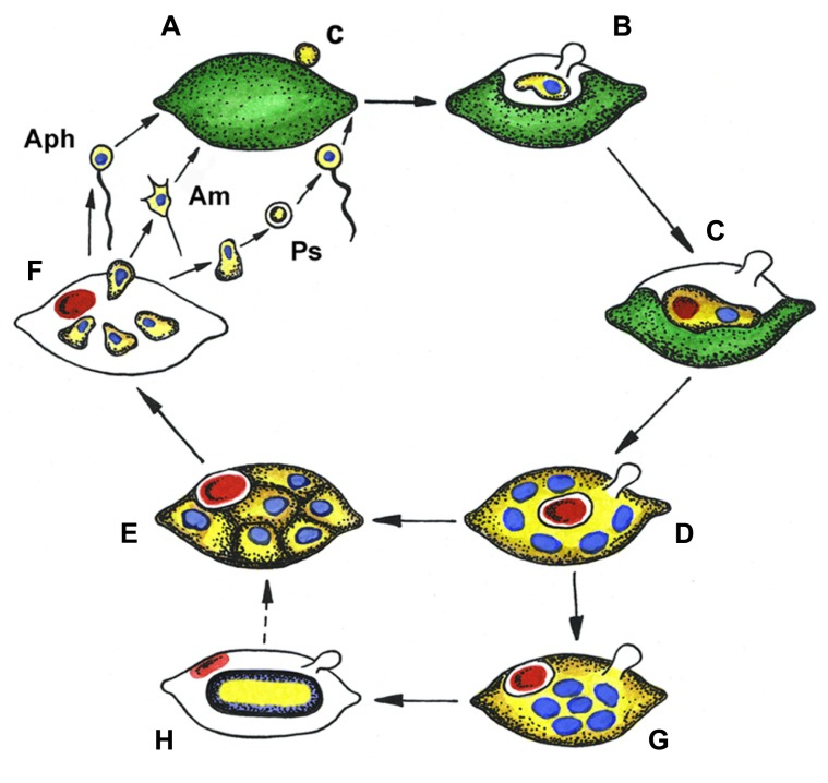 Aphelidium (Aph), Amoeboaphelidium (Am) and Pseudaphelidium (Ps), distinguished by zoospore structure and development. (A) Zoospore encystment (c) on the host surface, (B) propagule penetration into the host, (C) trophic amoeba with nucleus (blue) and residual body (red) engulfs host cytoplasm, (D) multinuclear plasmodium (yellow) totally replaced the host, contains several nuclei (blue) and central vacuole with residual body (red), (E) plasmodium divides producing uninuclear cells, (F) mature zoospores released from the empty host cell, (G) precursory stage to the resting spore with nuclei in the center, (H) resting spore with ejected residual body. Dotted line shows conceivable way from resting spore to divided plasmodium. Colors: green, host (alga) cytoplasm; yellow, parasitoid cytoplasm; blue, nucleus; red, residual body.